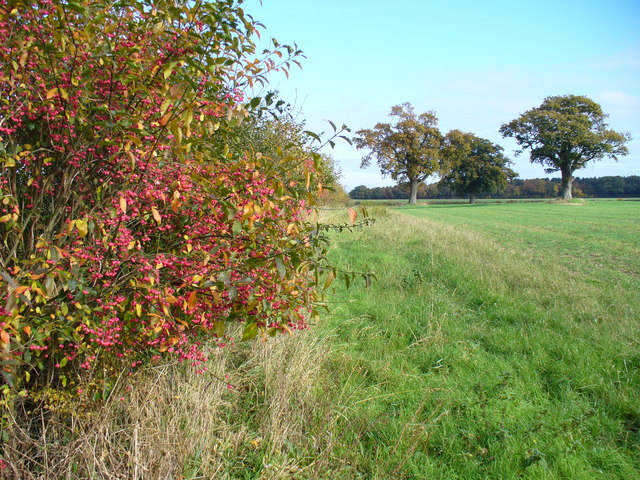 West of Blackwell Farm Flowering hedgerow and large pastures below the northern slope of the Hog's Back.